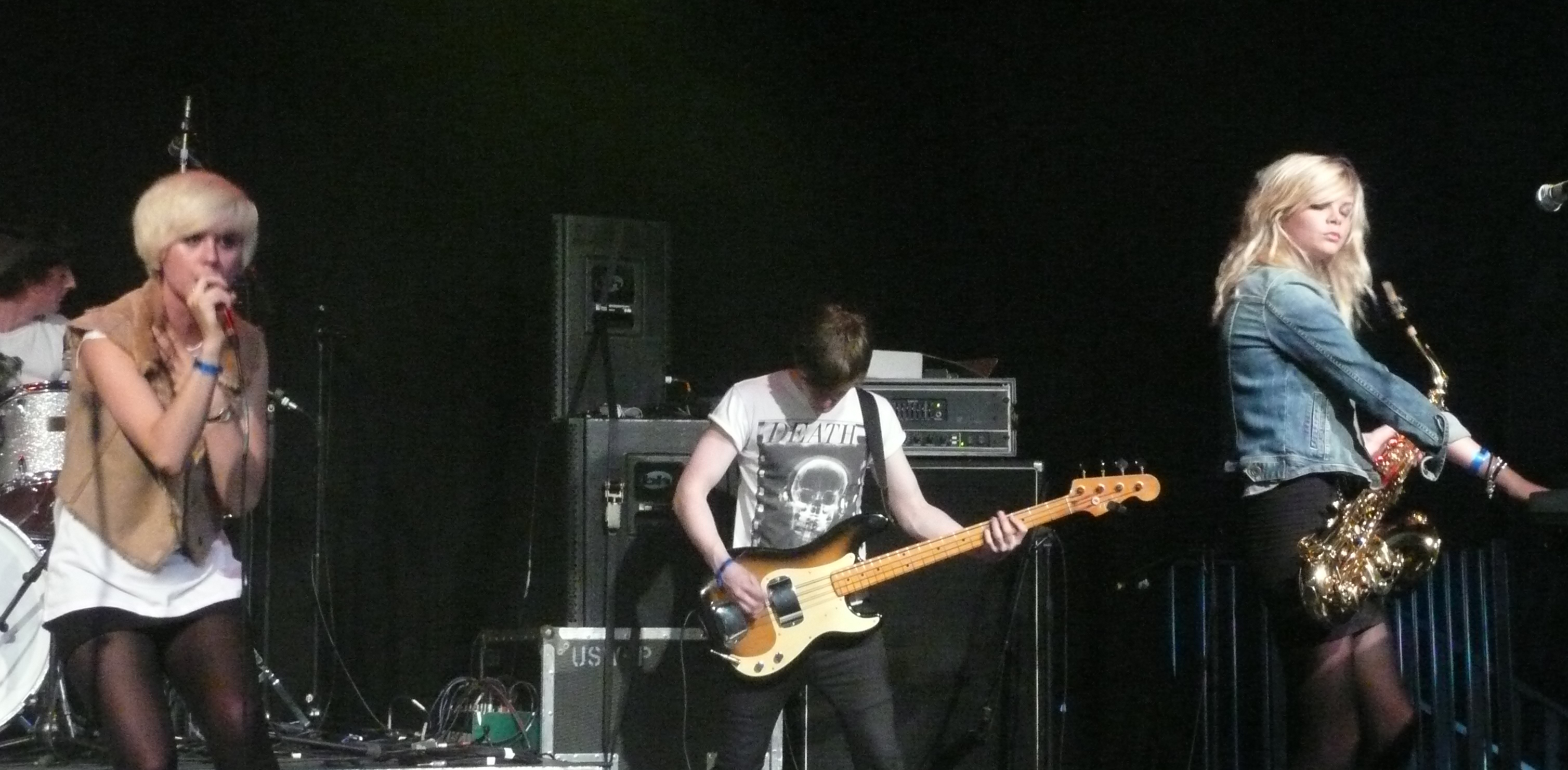 The Arcadian Kicks performing on the Big Top stage at the 2011 Wychwood Festival